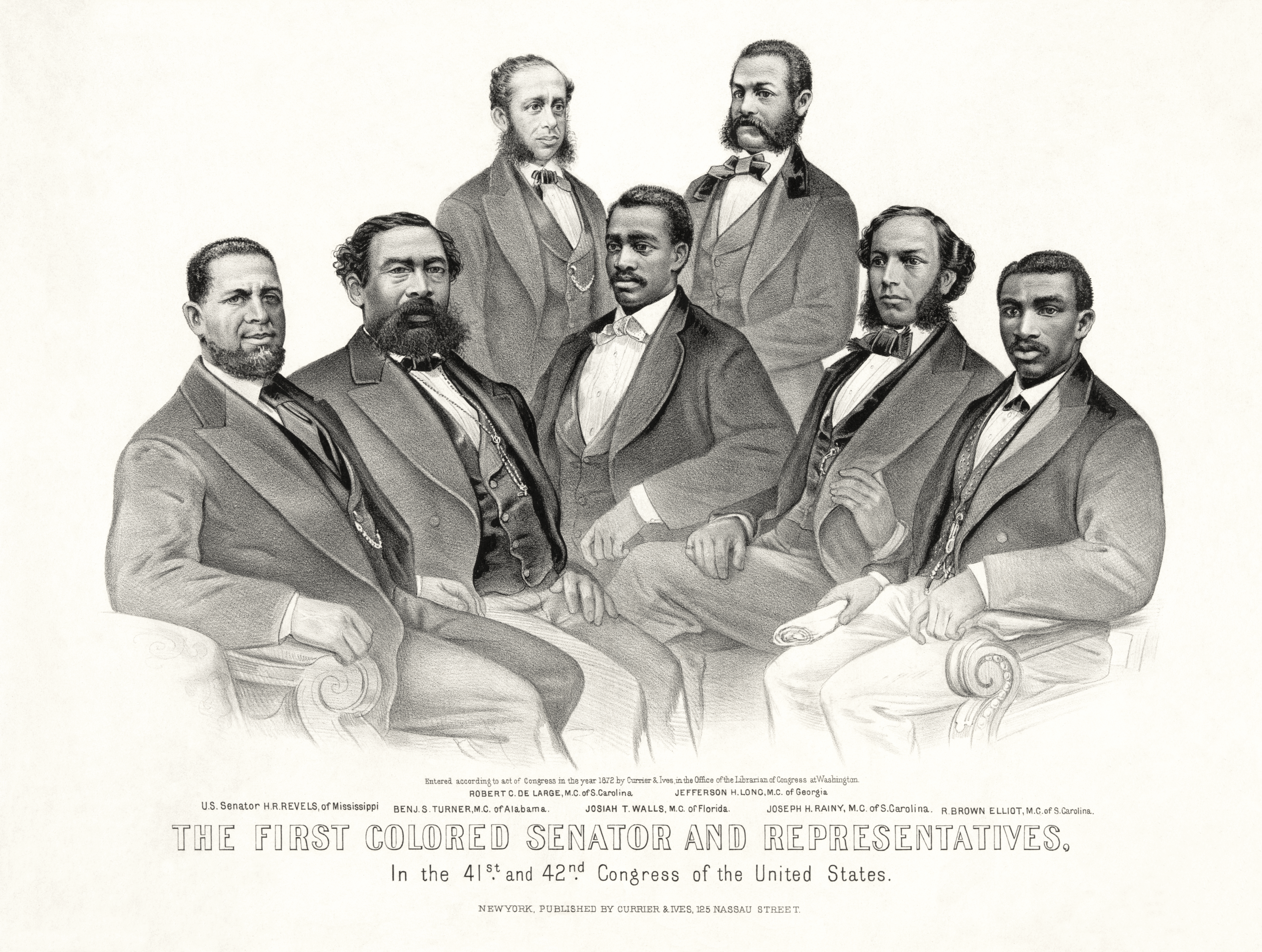 First Colored Senator and Representatives in the 41st and 42nd Congress of the United States." (Left to right) Republican Senator Hiram Revels of Mississippi, Representatives Benjamin Turner of Alabama, Robert DeLarge of South Carolina, Josiah Walls of Florida, Jefferson Long of Georgia, Joseph Rainey and Robert B. Elliot of South Carolina. 1872